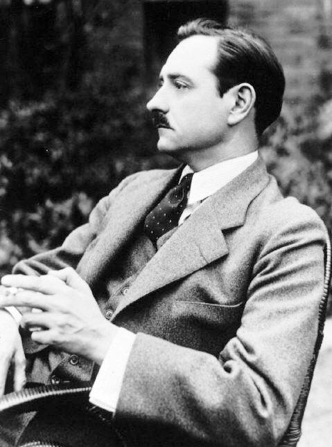 French cellist Maurice Maréchal (1892-1964) seated in front of the Imperial Hotel in Tokyo